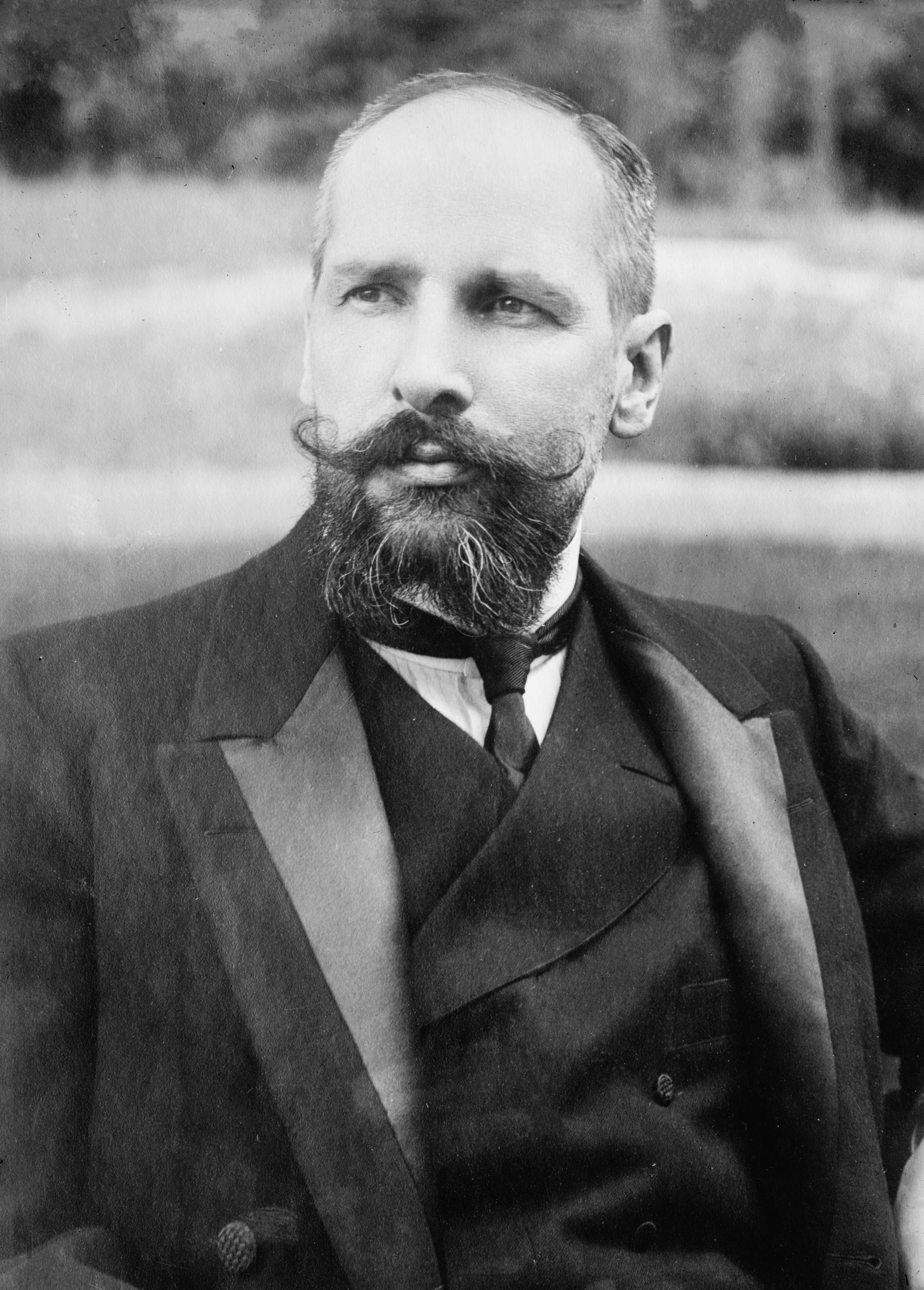 Pyotr Stolypin, Russian Empire's Prime Minister (1906 - 1911).